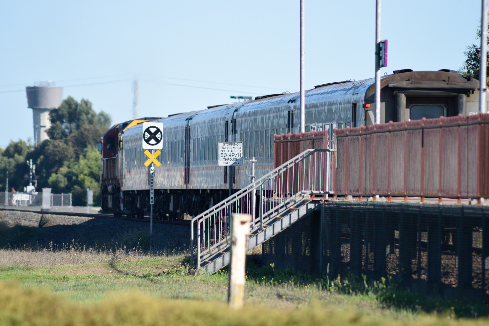 V/Line Warrnambool service departing Sherwood Park Station